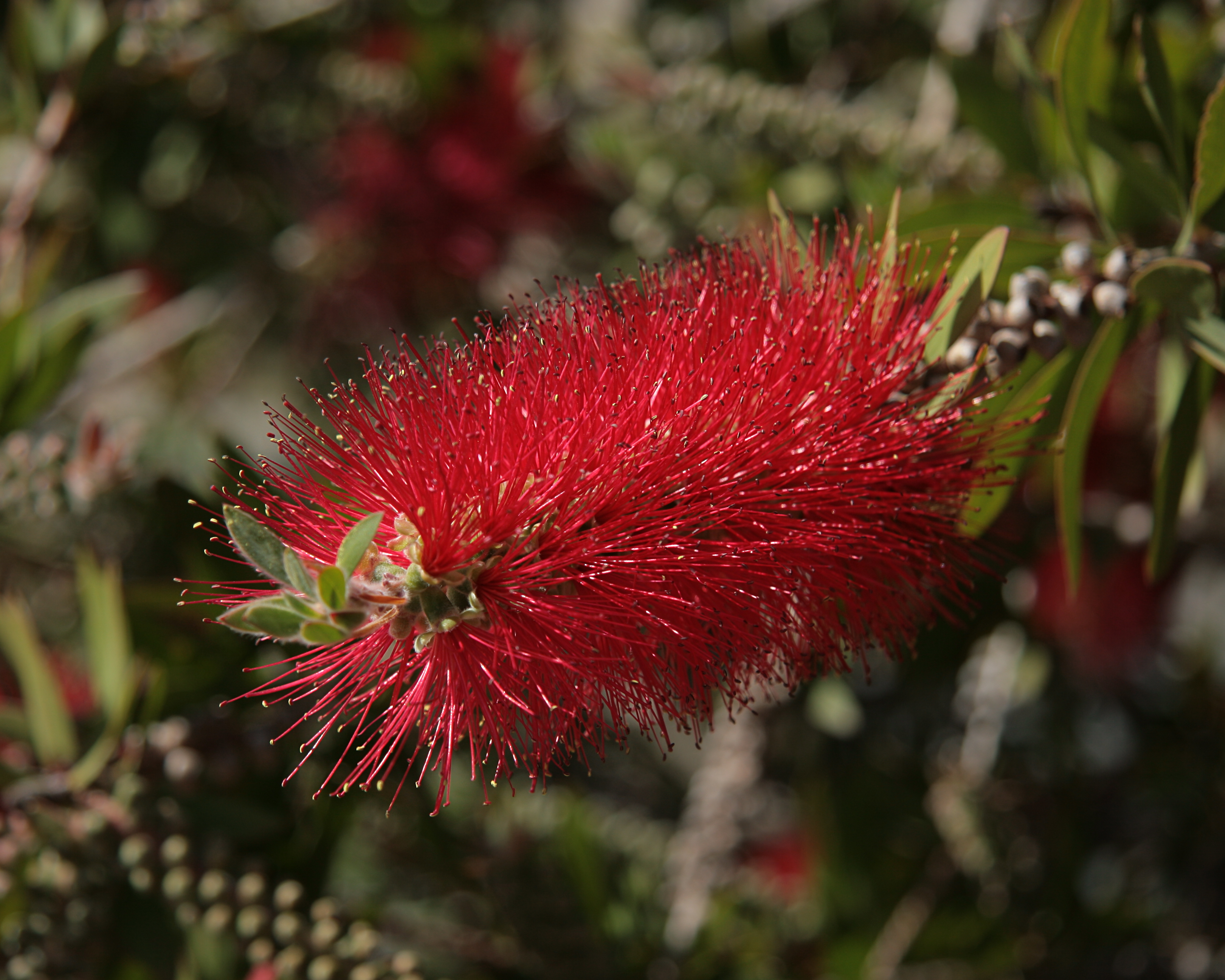 Crimson Bottlebrush, trees are in bloom, Cyprus